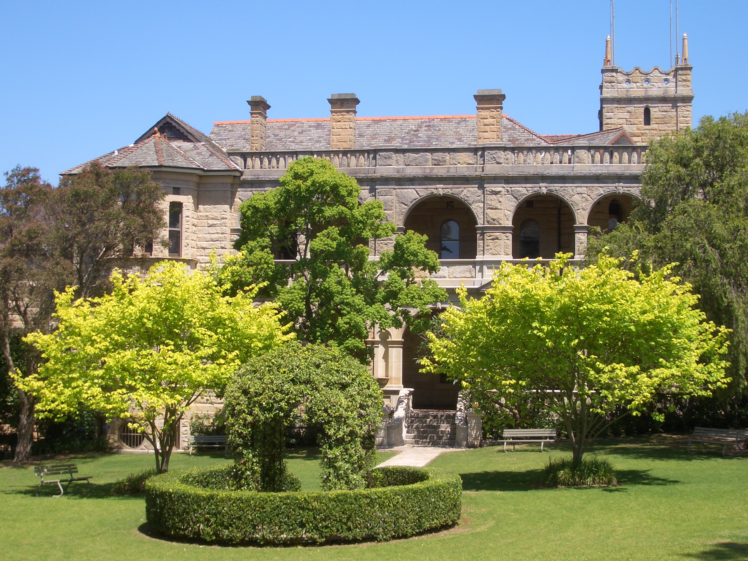 Curzon Hall, Marsfield, Sydney